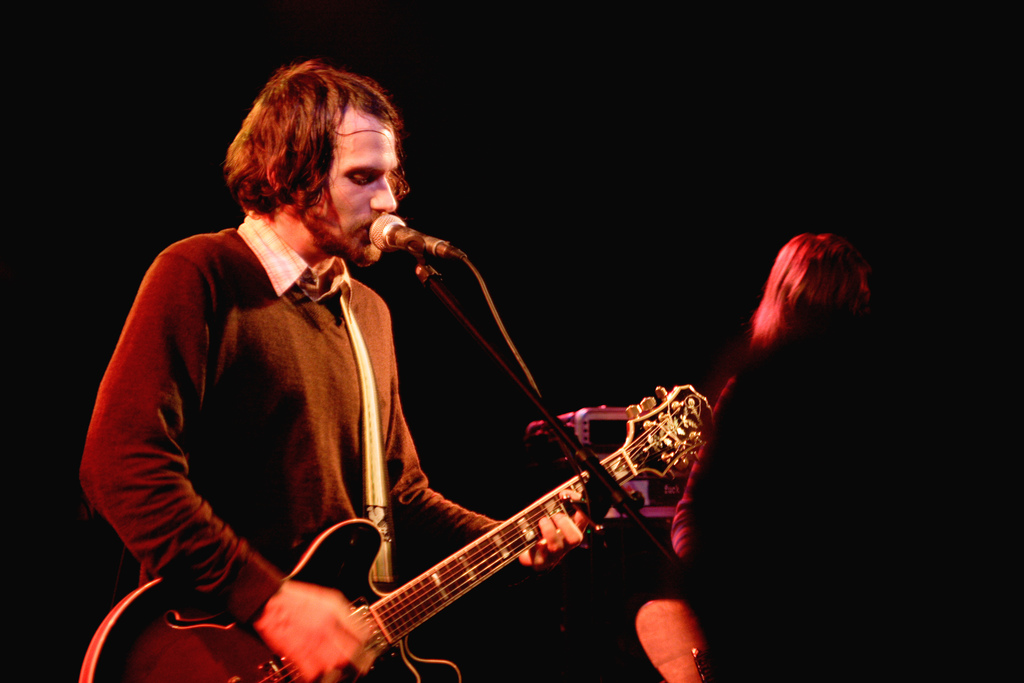 Silversun Pickups, live in The Crocodile Cafe, 2005.